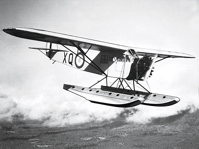 Fairchild FC-2L